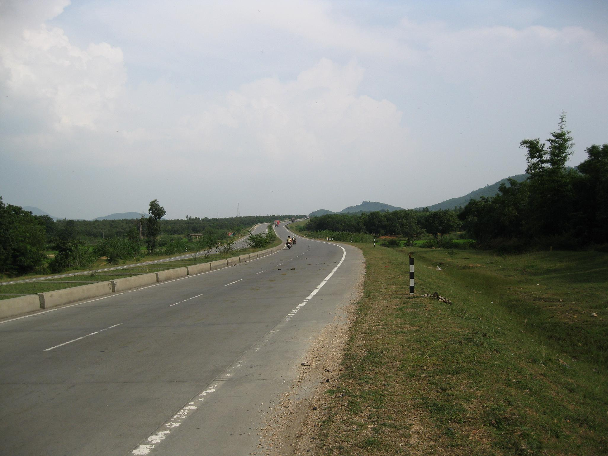 GT Road near Barhi, Jharkhand